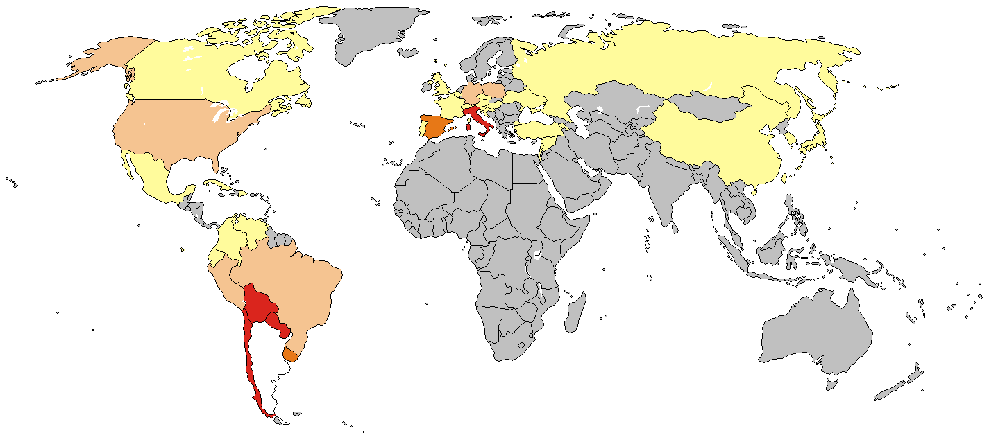 Foreign born residents in Argentina by country of birth. +200,000 : Paraguay, Bolivia, Chile, Italy 100,000-199,999 : Spain, Uruguay 10,000-99,999 : Peru, Brazil, Poland, United States, Germany 1,000-9,999 : Canada, Colombia, Cuba, Dominican Republic, Ecuador, Mexico, Venezuela, South Korea, China, Taiwan, Israel, Japan, Lebanon, Syria, Armenia, Austria, Belgium, France, Greece, Hungary, Portugal, United Kingdom, Switzerland, Turkey, Russia, Ukraine, Croatia, Slovenia, Czech Republic, Serbia No Data Argentina